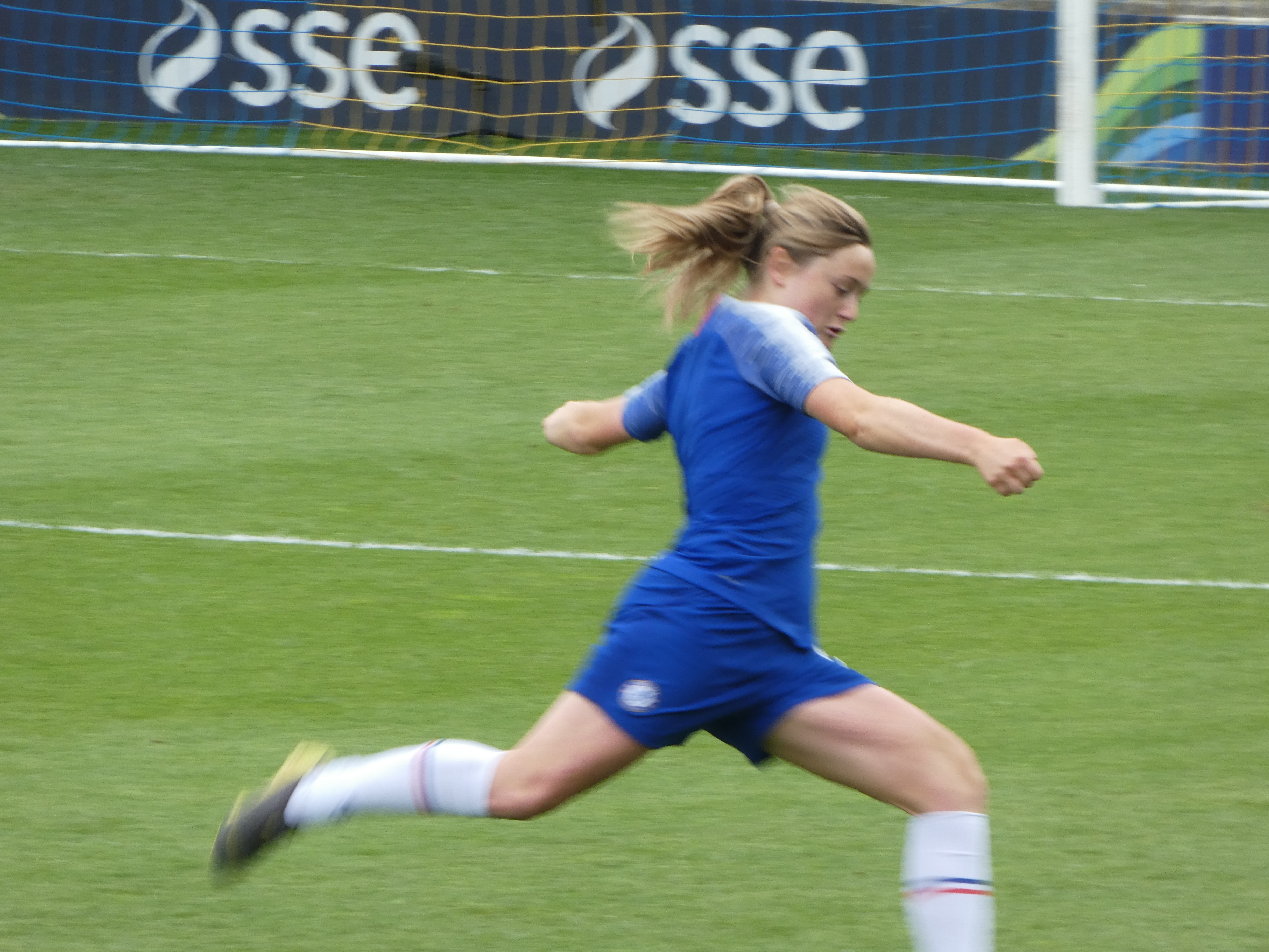 Erin Cuthbert